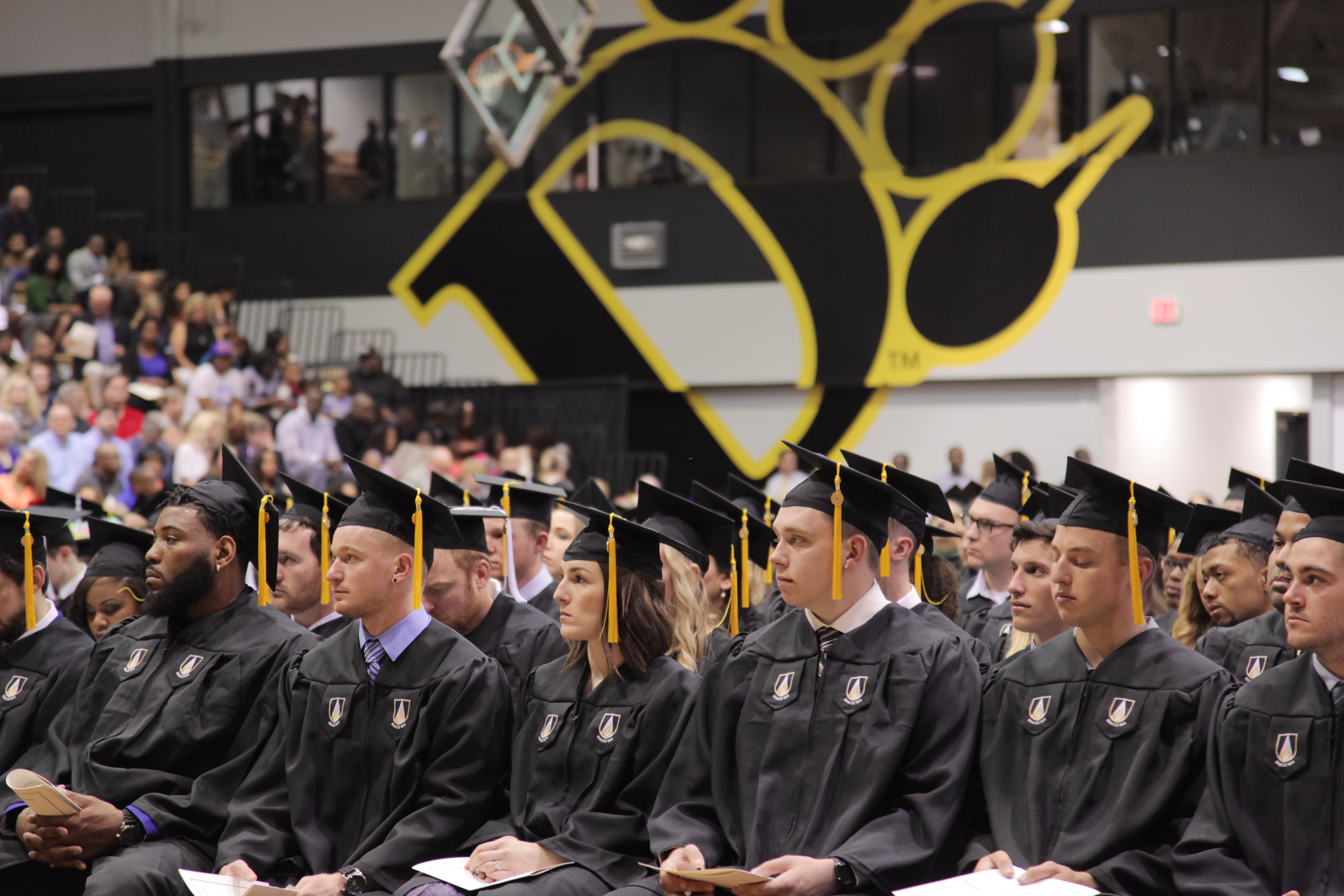 Graduation at Ohio Dominican University